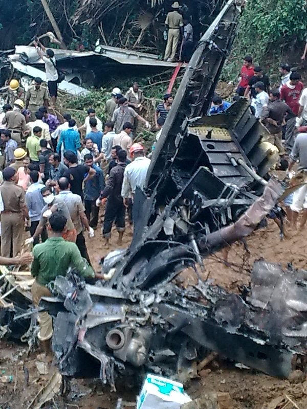 Bajpe plane crash site photo